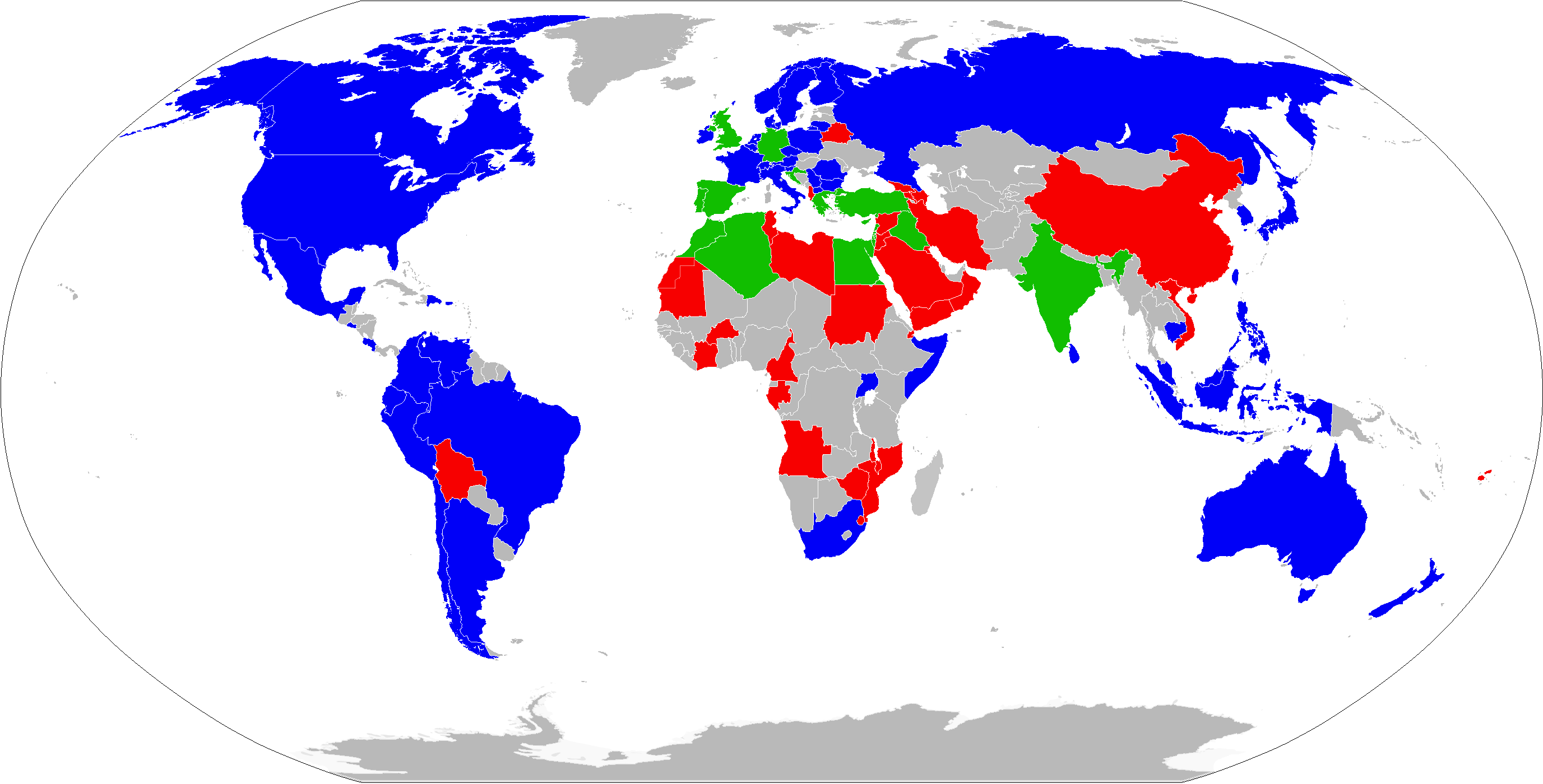 Occupy protests map. • Occupy Wall Street demonstrations. • Arab Spring and Impact without Wall Street Demonstrations. • Protests started before Occupy Wall Street in reaction to the Arab Spring.